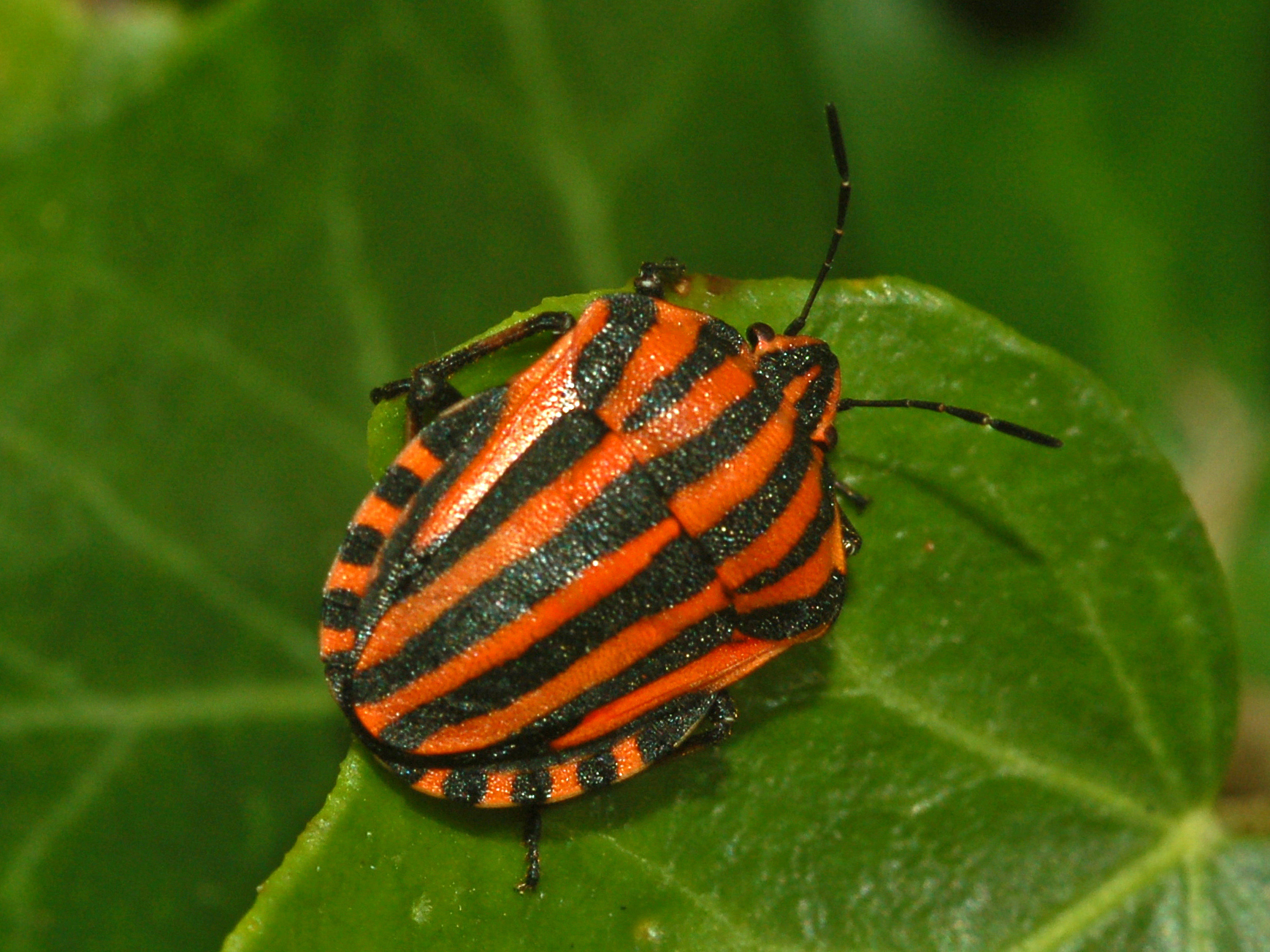 Pentatomidae - Graphosoma italicum. Genova, Italy